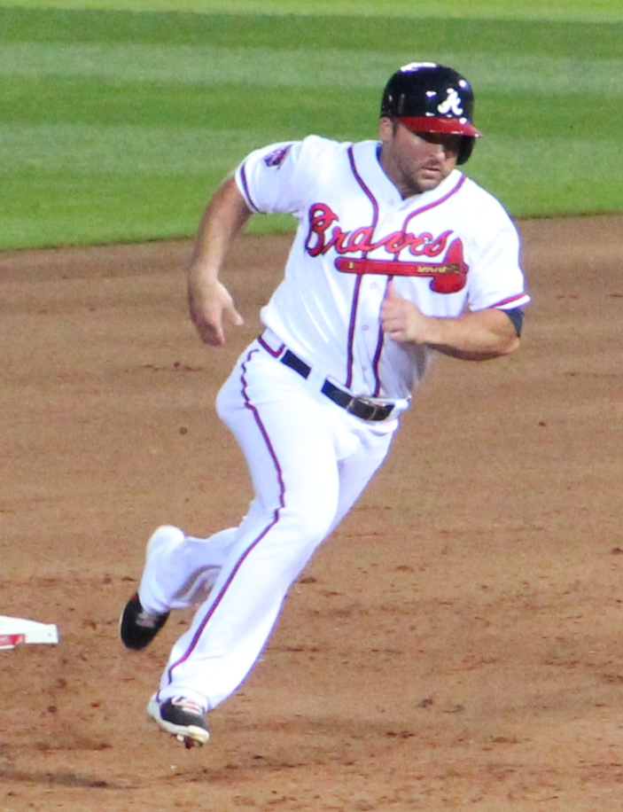 Dan Uggla in 2014